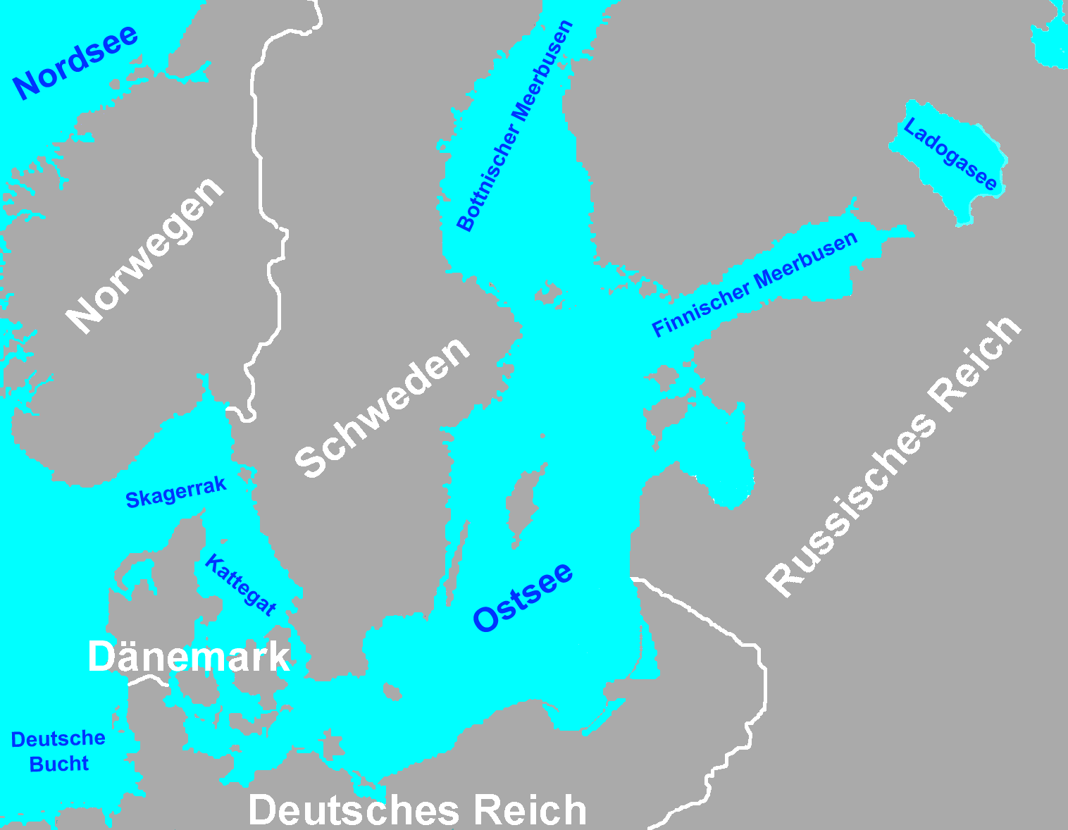 World War I]